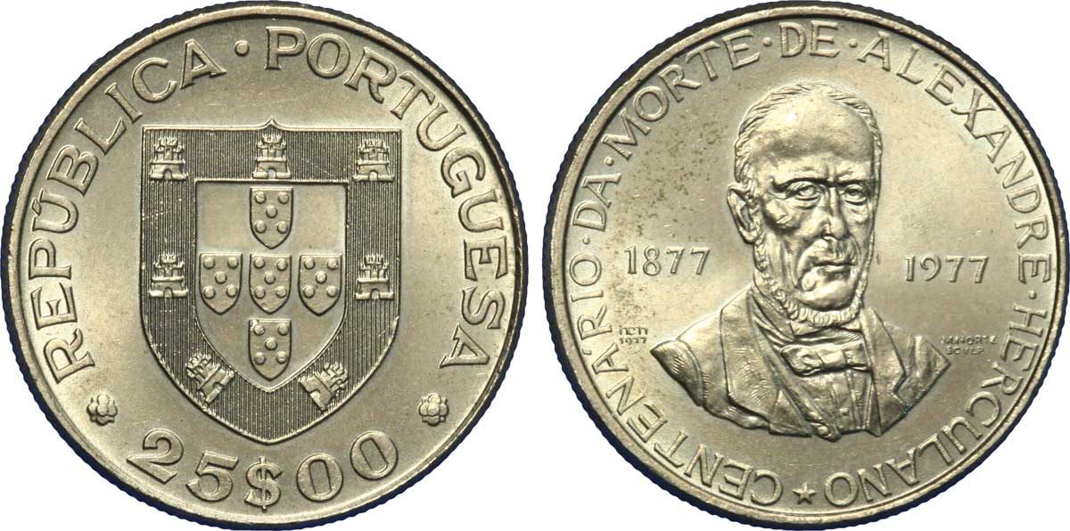 25 Escudos célébrant le centenaire de de la mort de l’écrivain Alexandre Herculano, 1977